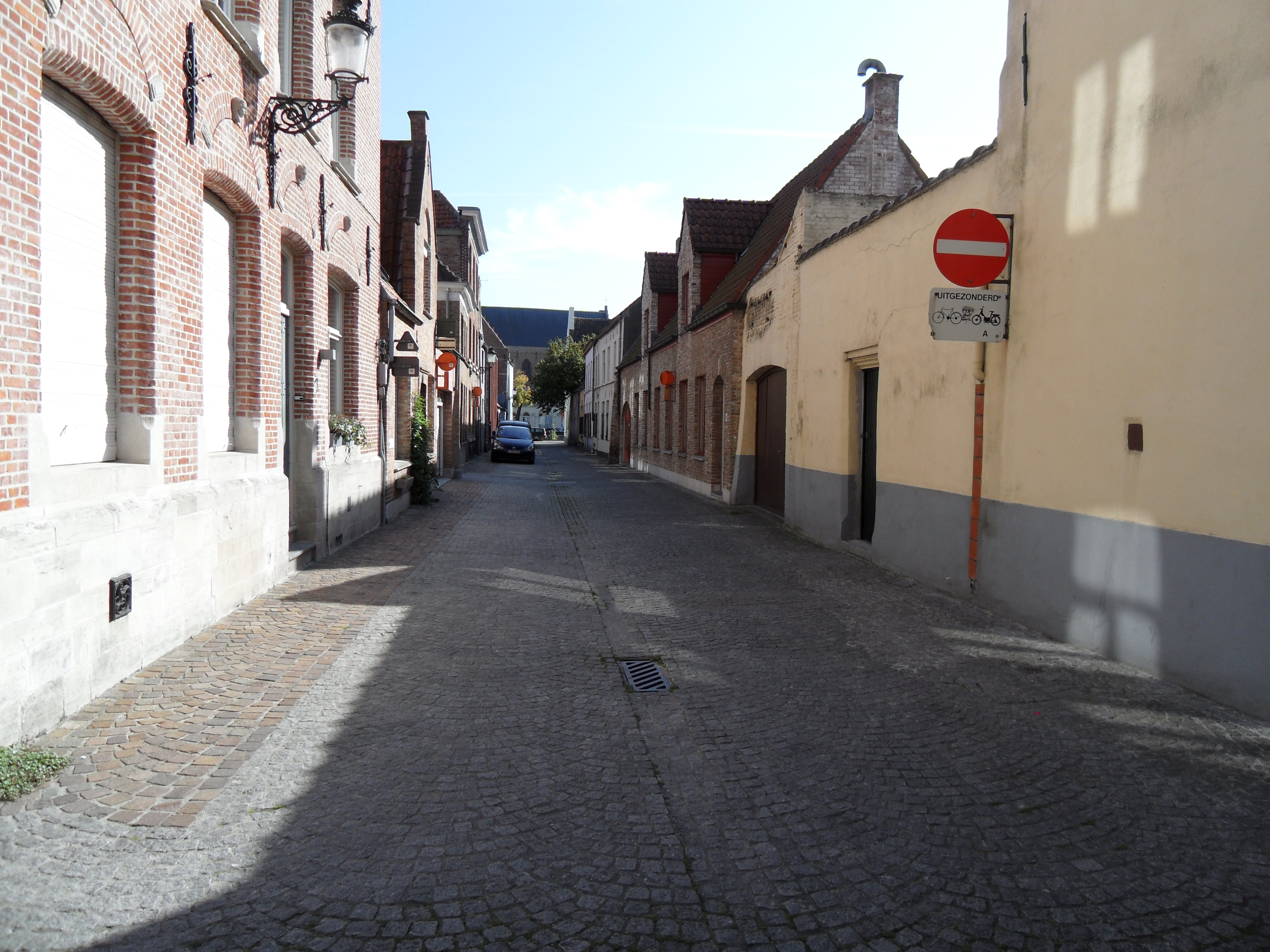 Sint-Gilliskoorstraat in Bruges